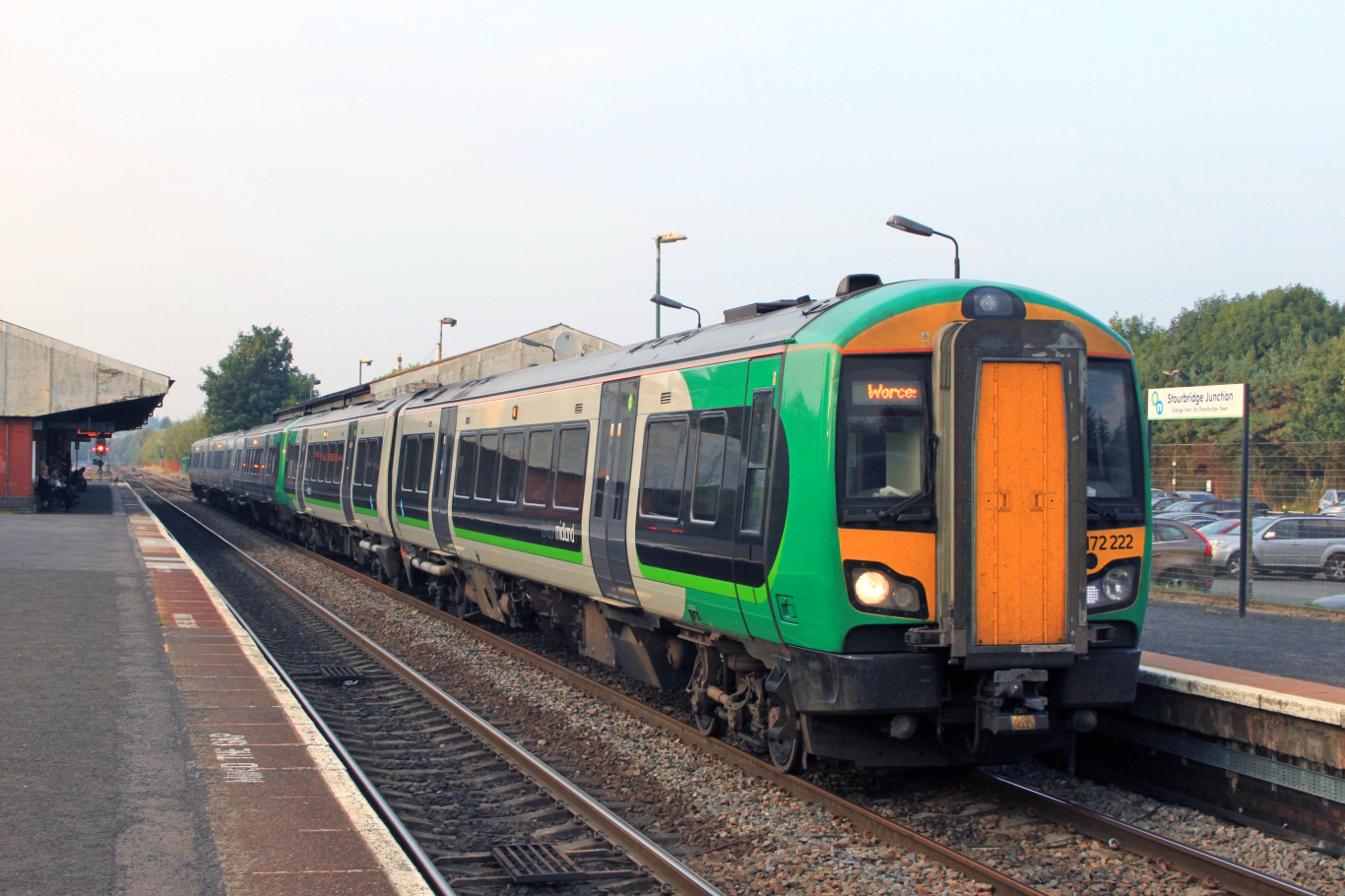 172222 and 172332 pair up to work a five-car London Midland service to Worcester, seen calling at Stourbridge Junction.